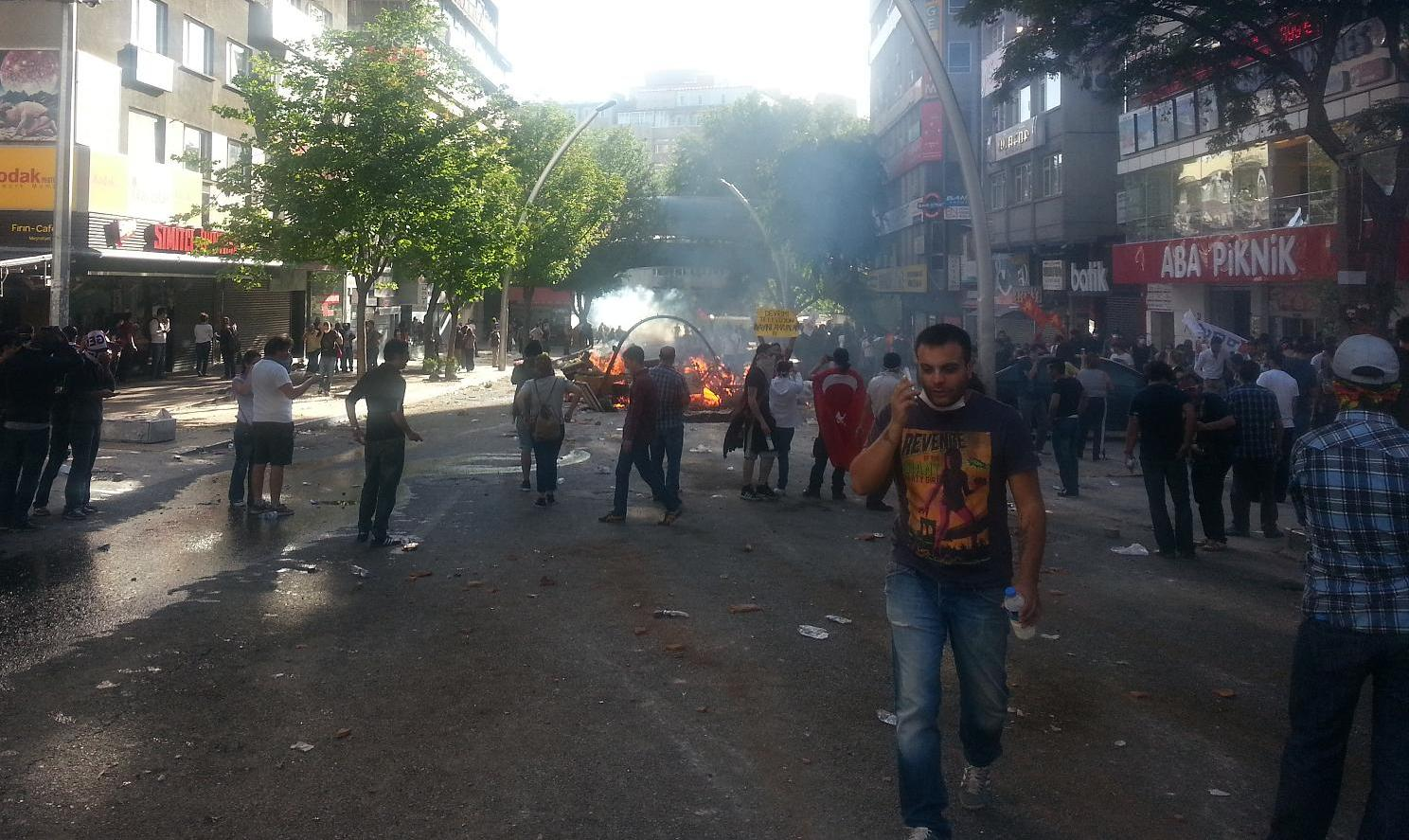 People from Ankara supports 2013 protests in Turkey.